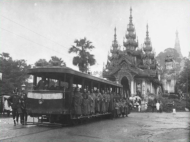 The Muslim Sir Adamjee Haji Dawood, Director, Rangoon Electric Tramways, Rangoon (Burma) donated the free ride for monks